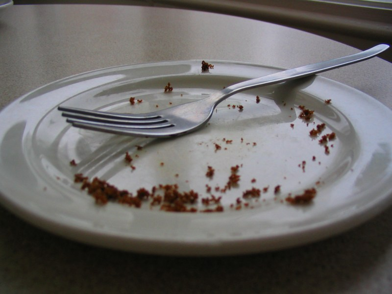 A fork on a saucer.